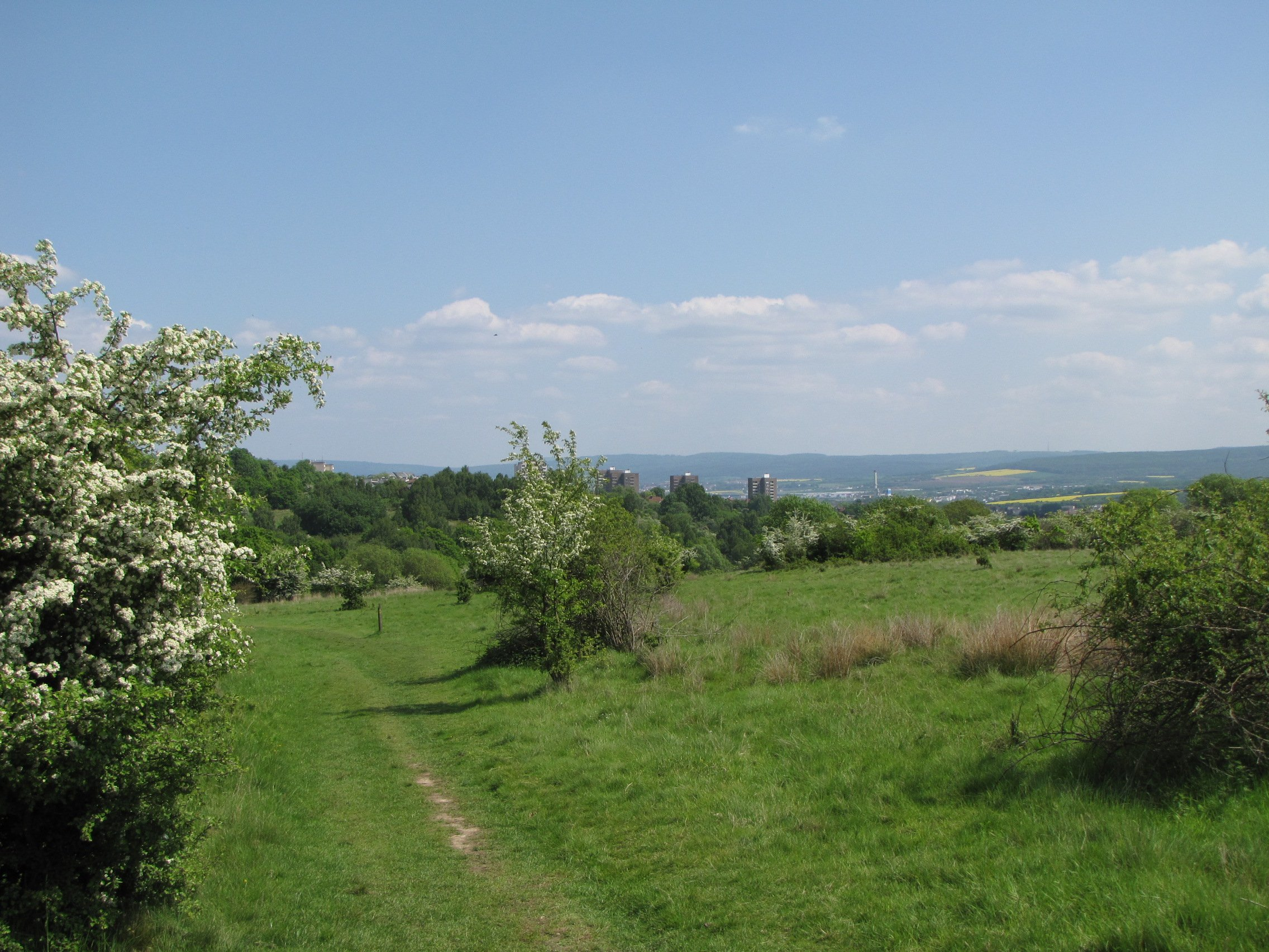 Germany Cassel: nature protection area Dönche